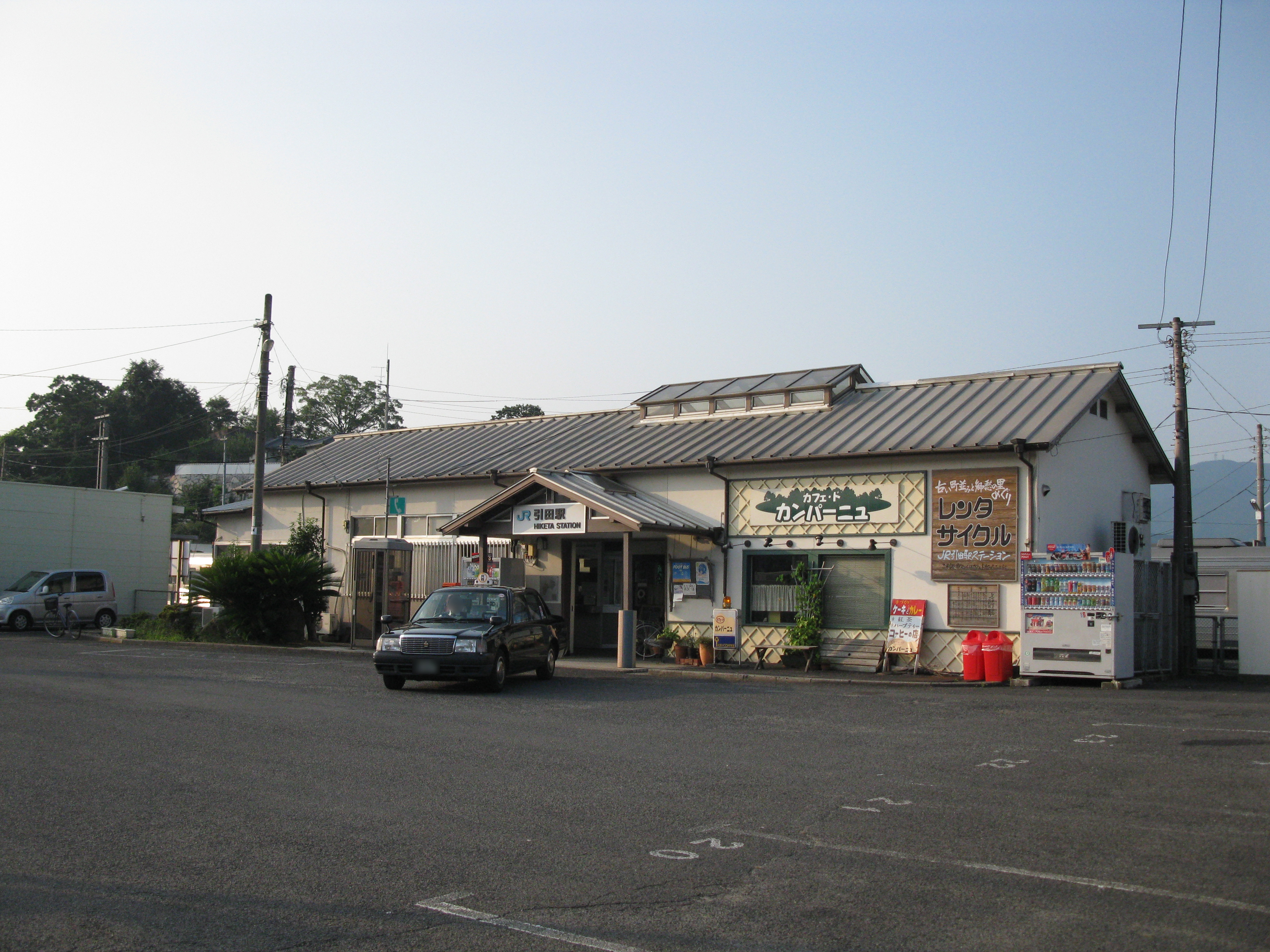 Hiketa Station building (Shikoku Railway(JR Shikoku) Kōtoku Line)